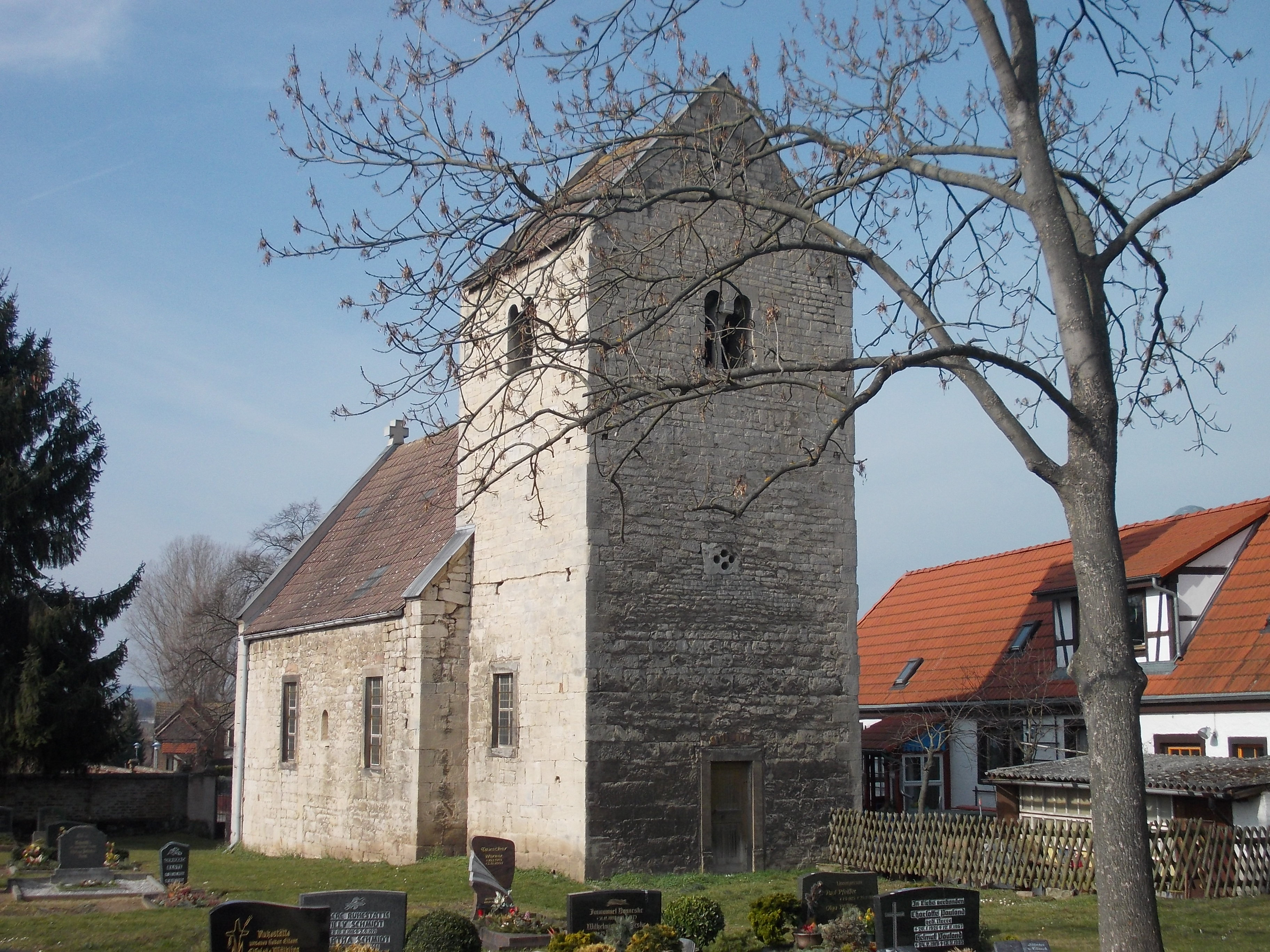 Weischütz church (Freyburg/Unstrut, district: Burgenlandkreis, Saxony-Anhalt)